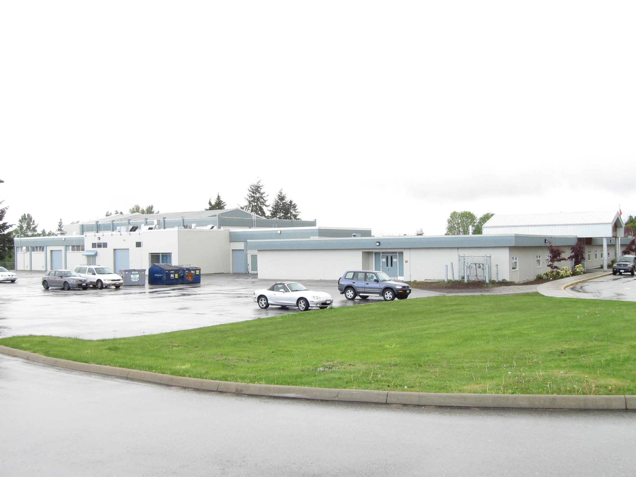 This is a northwest facing view of Delview Secondary School at 9111 116 Street in the Corporation of Delta, BC, Canada. This public school has been situated at this location since February 1970 and today enrols in students from grades 8 through to grades 12.